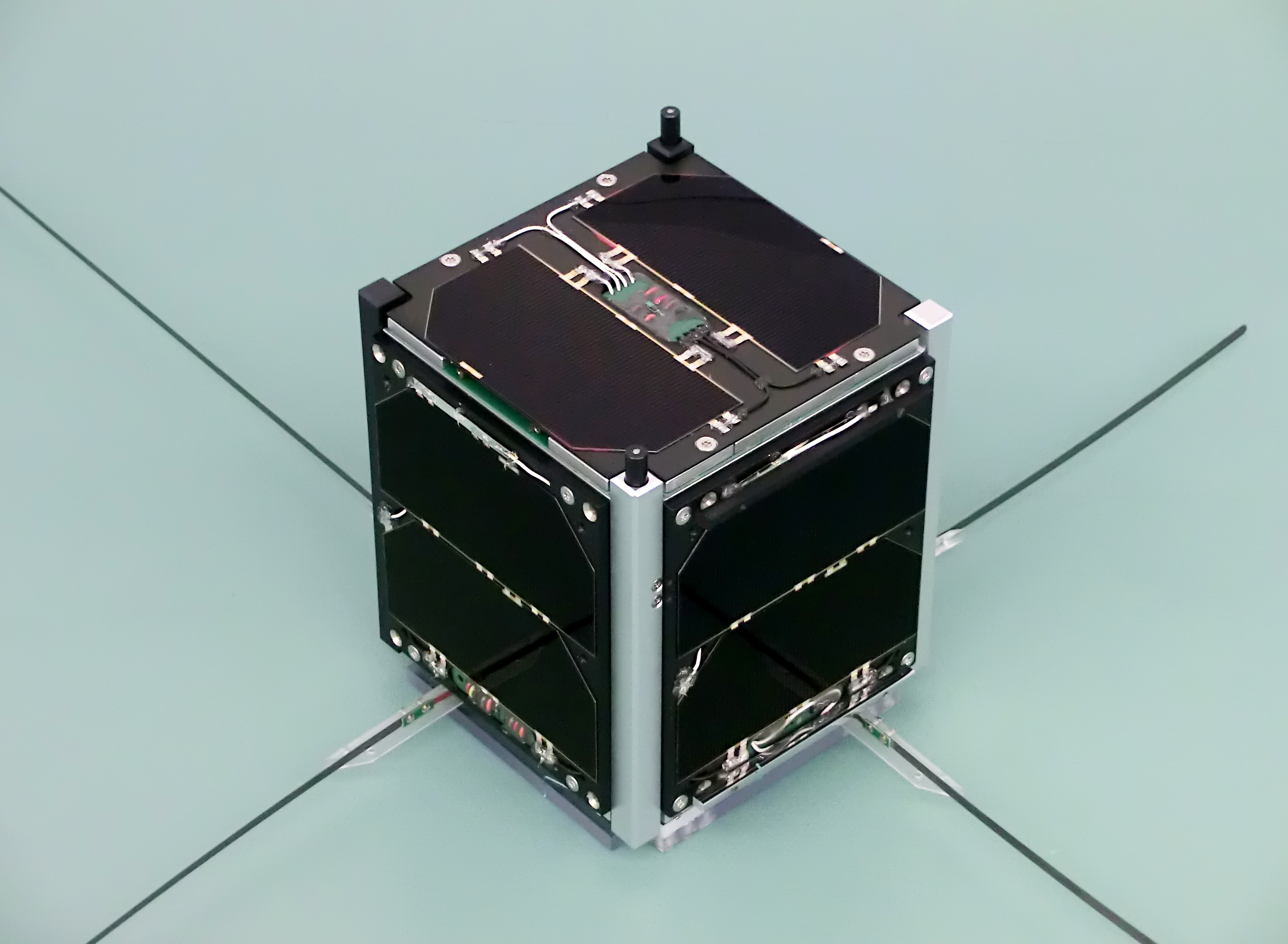 The FUNcube-1 CubeSat Satellite in the ISIS clean room in Delft prior to being launched.